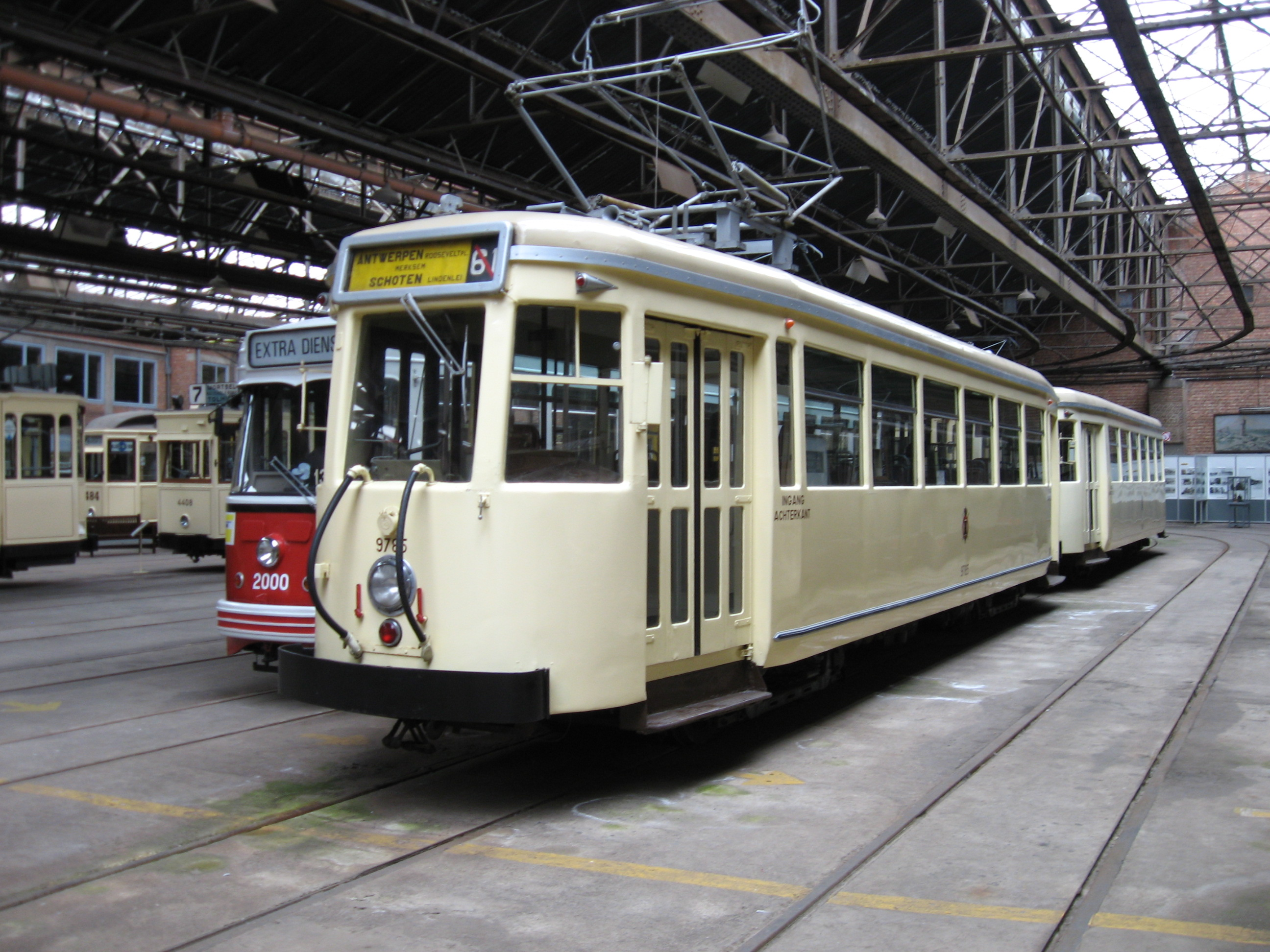 Type "S" SNCV tram wich ran the last line 61 in the province of Antwerp.